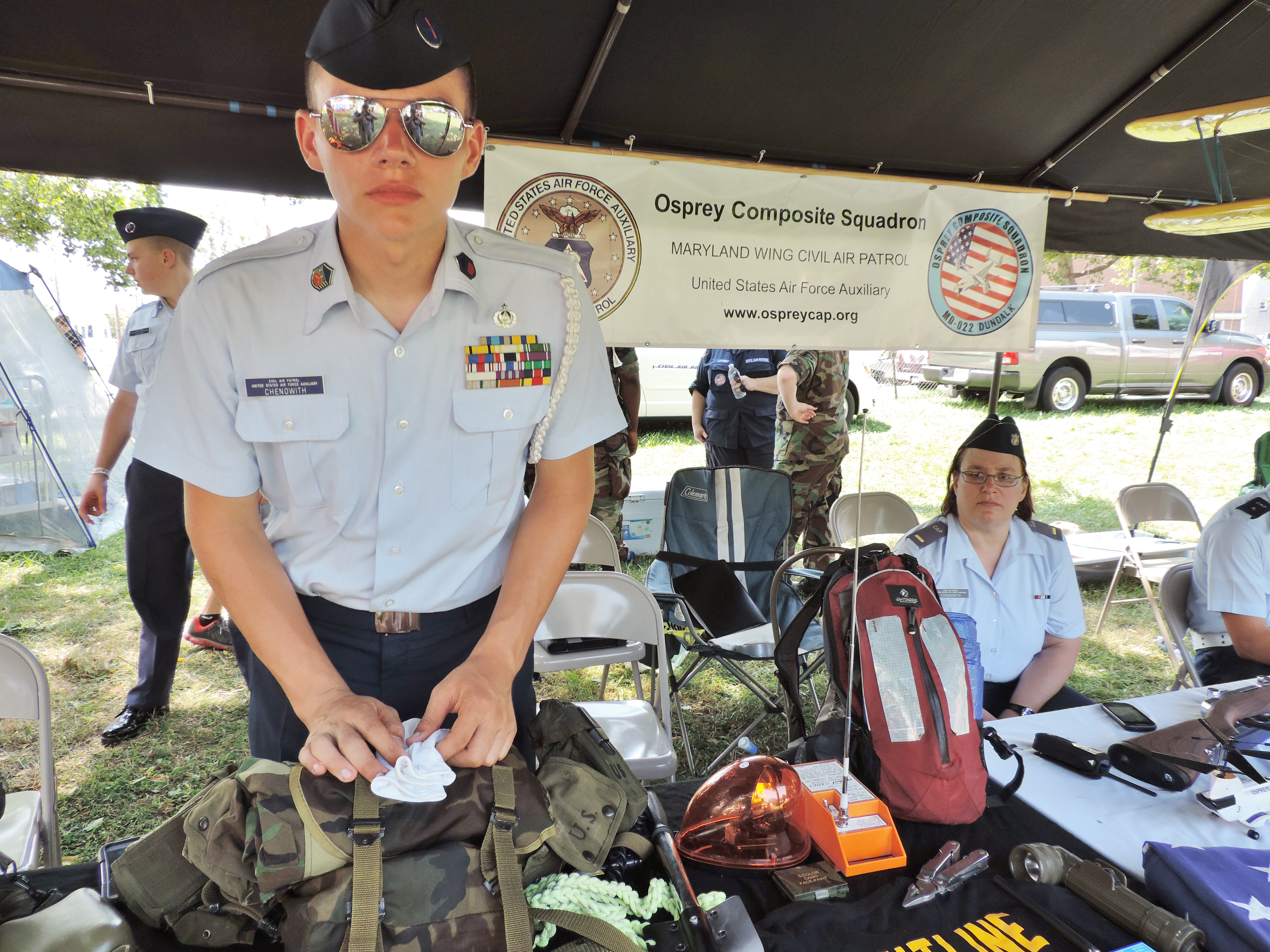 Civil Air Patrol cadets man a recruitment booth at the 2013 Dundalk Heritage Fair in Maryland. The annual, summer holiday time, Heritage Fair is a World Class Venue for outdoor concerts; it also has - all day for 3 days - great: fun, food, crafts shopping, community and local history booths, some carnival rides and games, and more. Go early and stay late, in tree shaded and grass carpeted Dundalk Heritage Park.